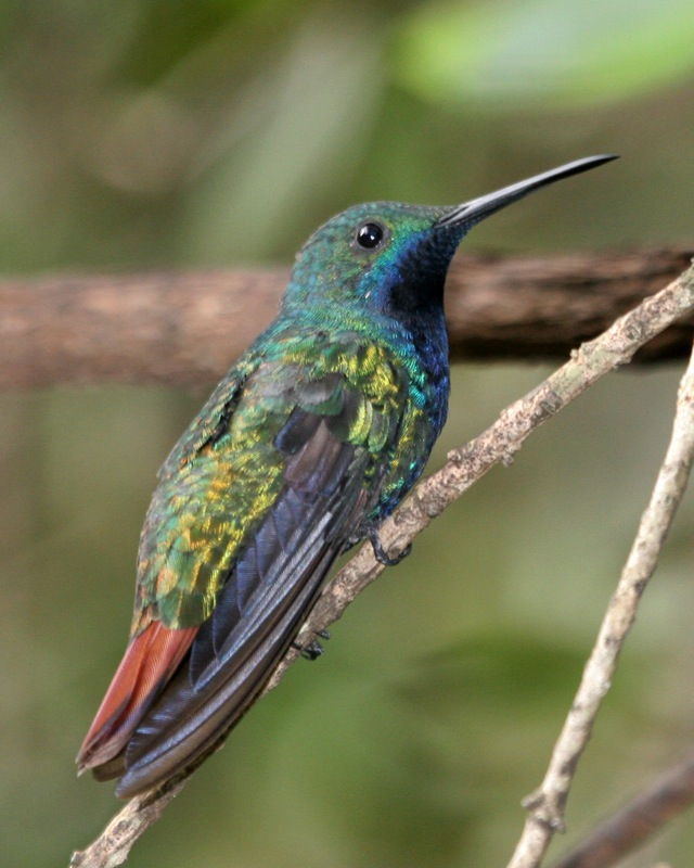 A male Black-throated Mango (Anthracothorax nigricollis) at Iguasu Falls, Argentina, 5th. April 2006